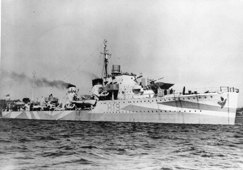 British destroyer HMS Harvester (H19) underway, coastal waters.